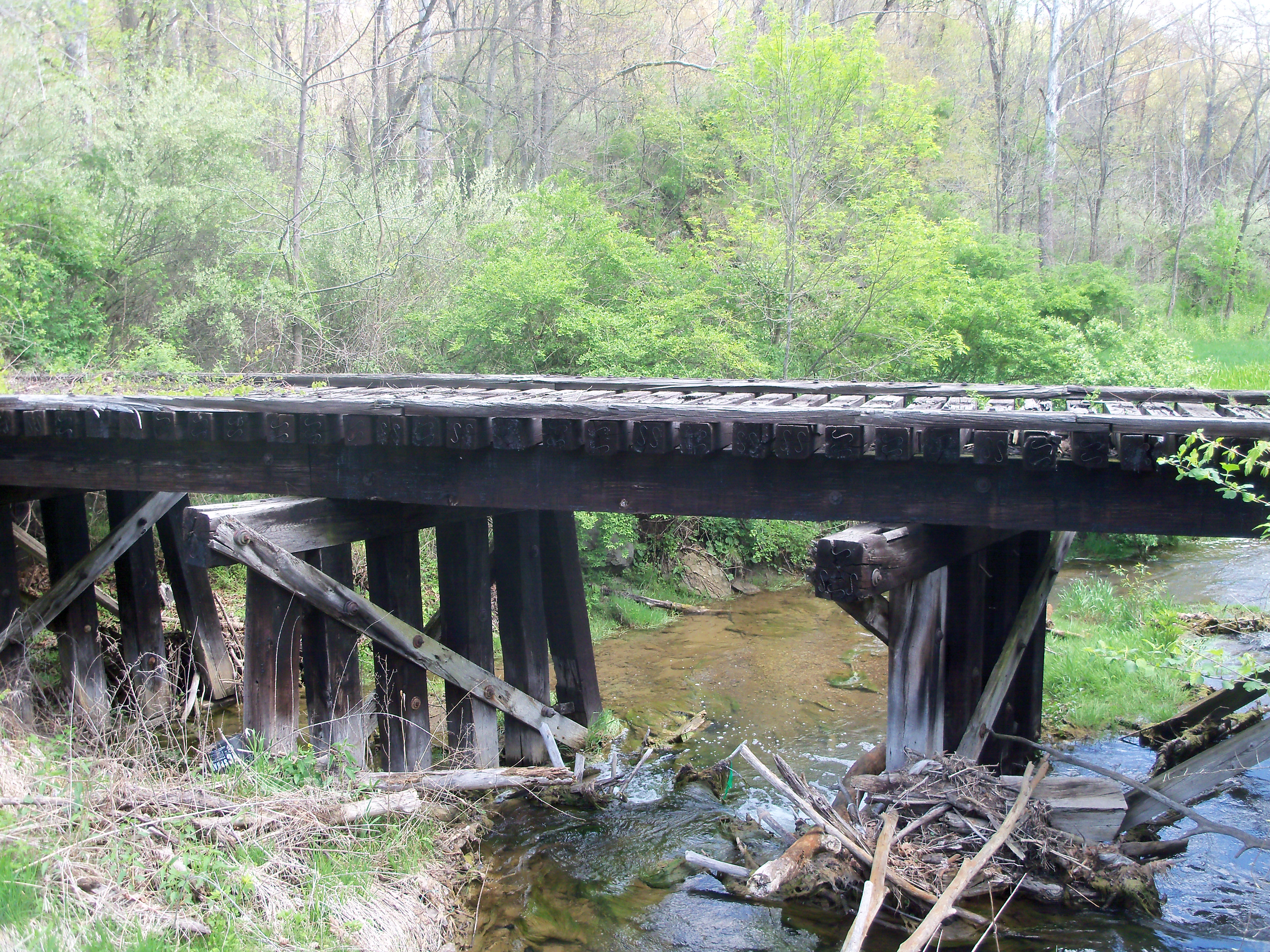 This old rail bridge across South Branch of Short Creek led to the coal mine in Georgetown, Harrison County, Ohio